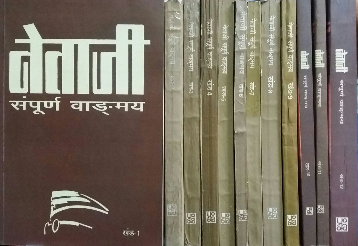 Collected Works of Netaji Subhash